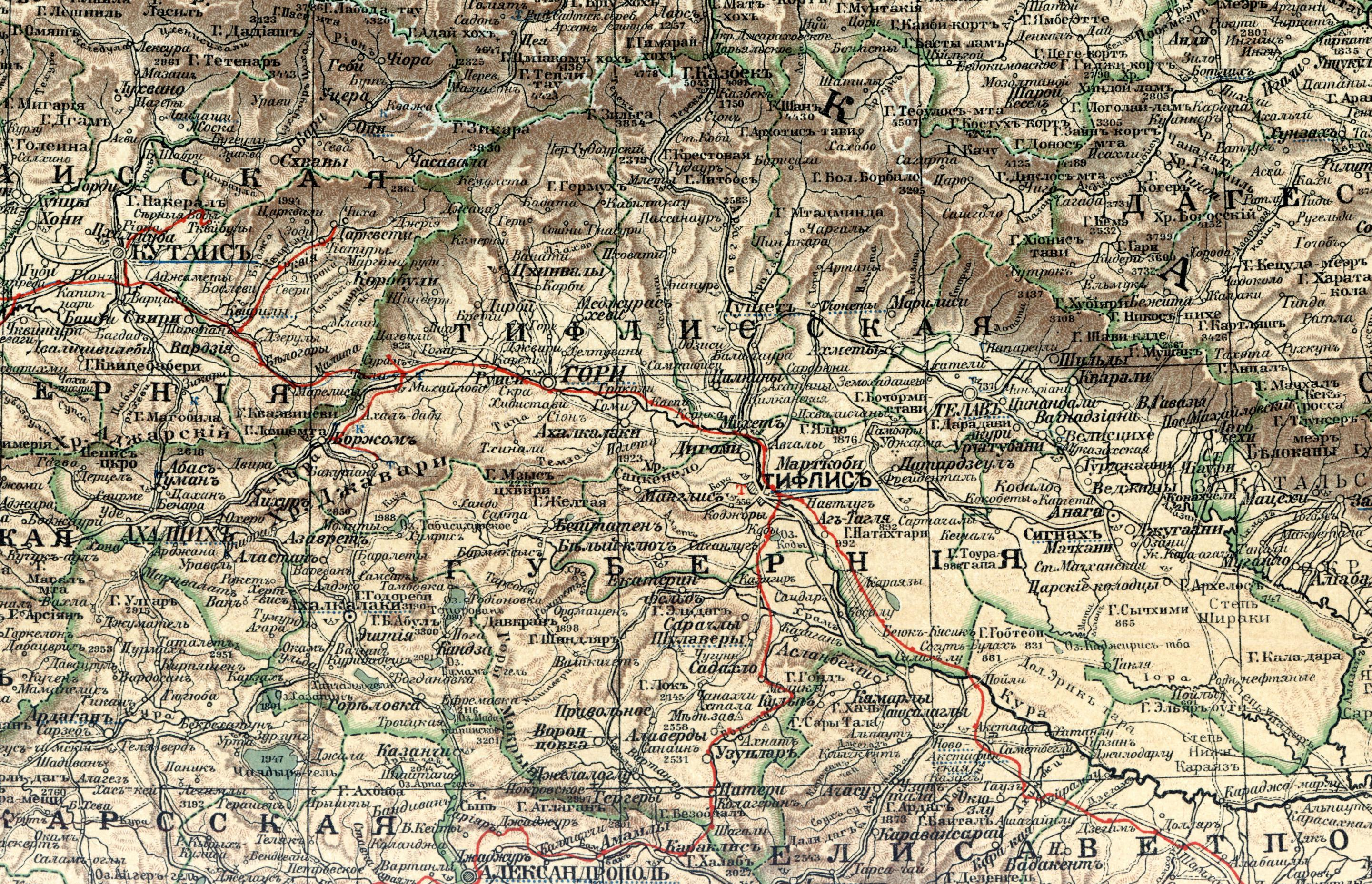 Map of Tiflis Governorate (Russian Empire)